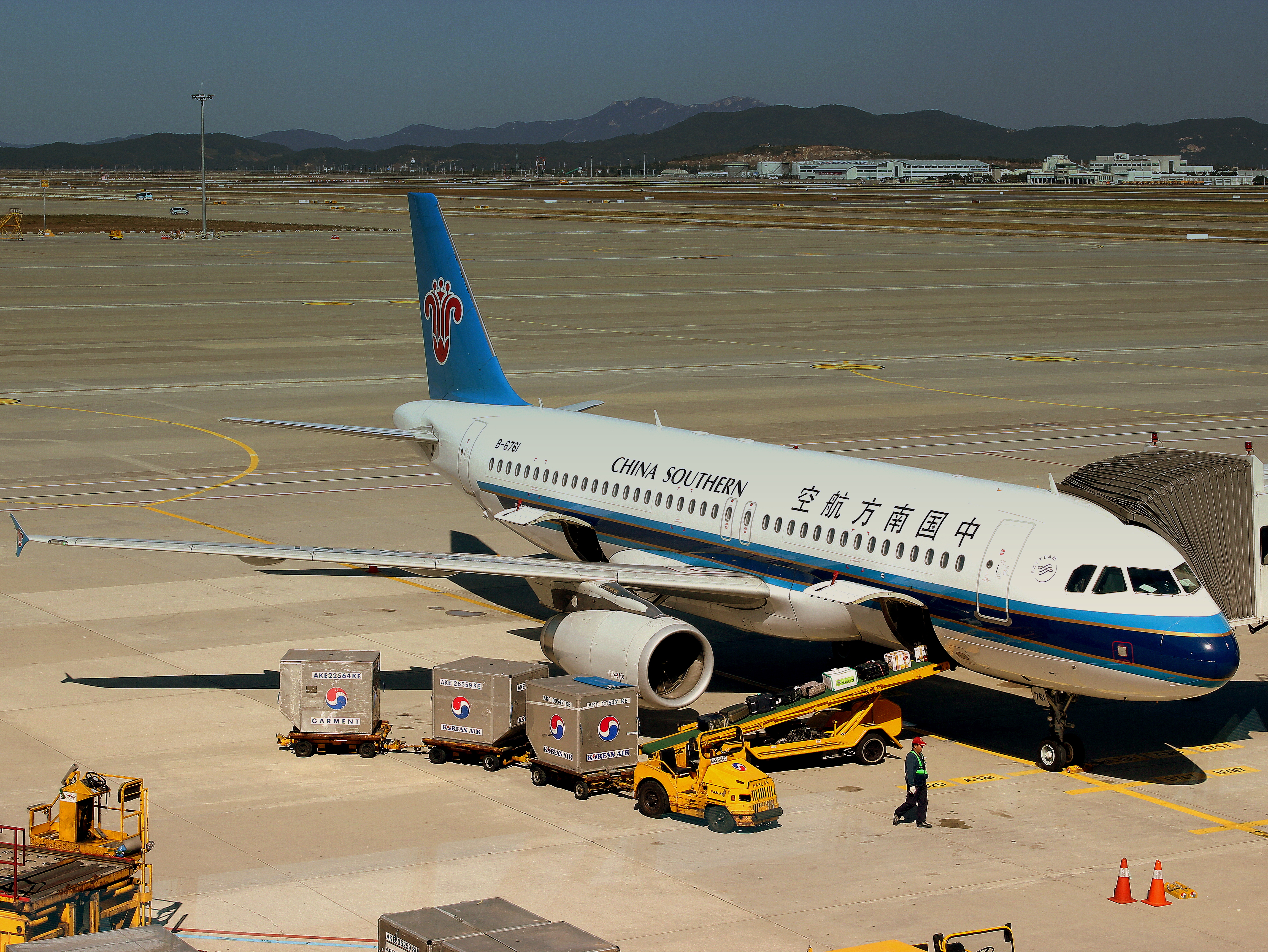 China Southern Airbus A320 at Seoul Incheon Airport.